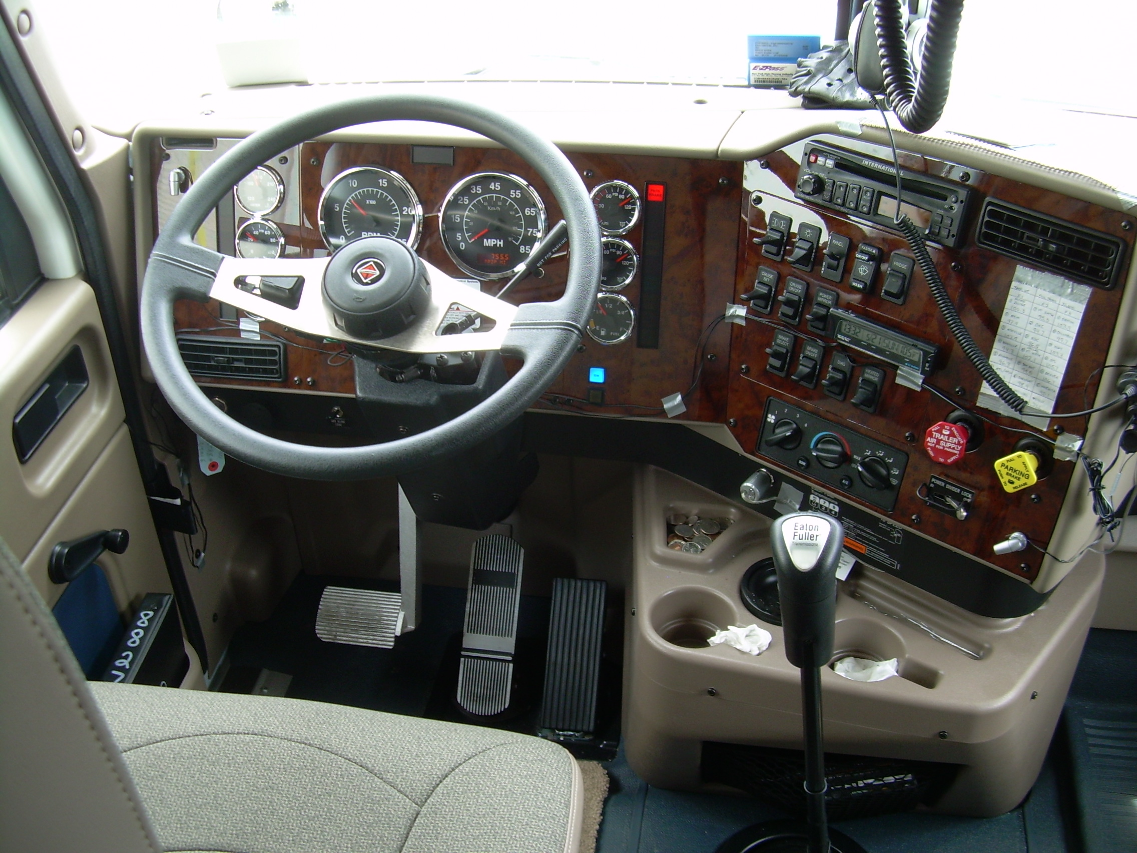 Interior of an Navistar International 9400i truck. The small blue illuminated square near the center of the photo is the Cummins Icon Idle system which allows the engine and the climate control to turn on only when it is needed as determined by a thermostat inside the truck. Switches on the dashboard (starting with the top left) include marker lamps, headlights, panel dimmer, windshield wipers, and fridge on/off; cruise set, cruise on/off, and powered mirror (passenger side only); engine brake power select (1, 2, or 3), engine brake on/off, diagnostics, and mirror heat. The large red octagonal knob is for the trailer brakes, and the yellow square one is for the tractor. Below the two knobs is the power divider switch, which engages both drive axles on the tractor (similar to a 4-wheel drive switch, although it is not recommended to operate interaxle differential switch at speeds over 35mph). At the bottom of the windshield, the large blue box which reads "E-ZPass" is an electronic toll collection transponder, for use on many of the toll roads on the East Coast of the United States. Other options (added by the driver) include, digital time, date, and exterior temperature. The paper taped to the dashboard is a list of the driver's favorite terrestrial radio stations from major cities across the continent.